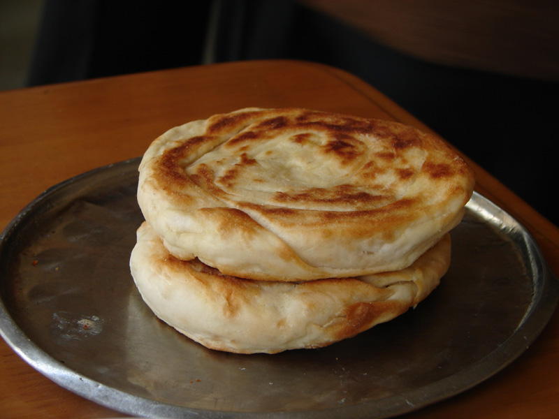 Bing zi, some type of pancake, from Yuncheng, China.